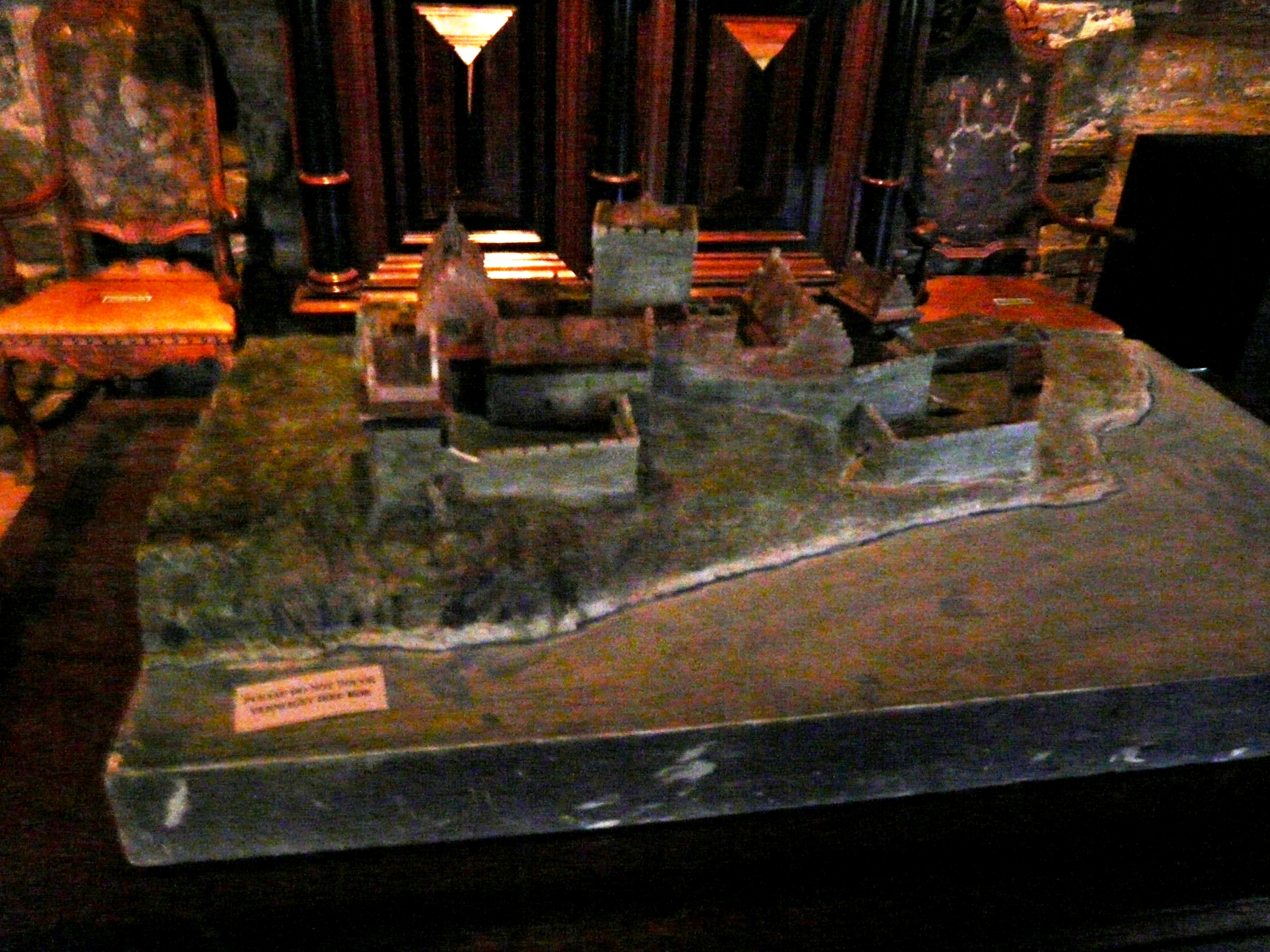 The layout of XIV century Akershus fortress (castle) that had been maden by architect Holger Sinding-Larsen. This layout placed in the Daredevil tower of Akershus castle/ Photo dated 01 of September, 2012.